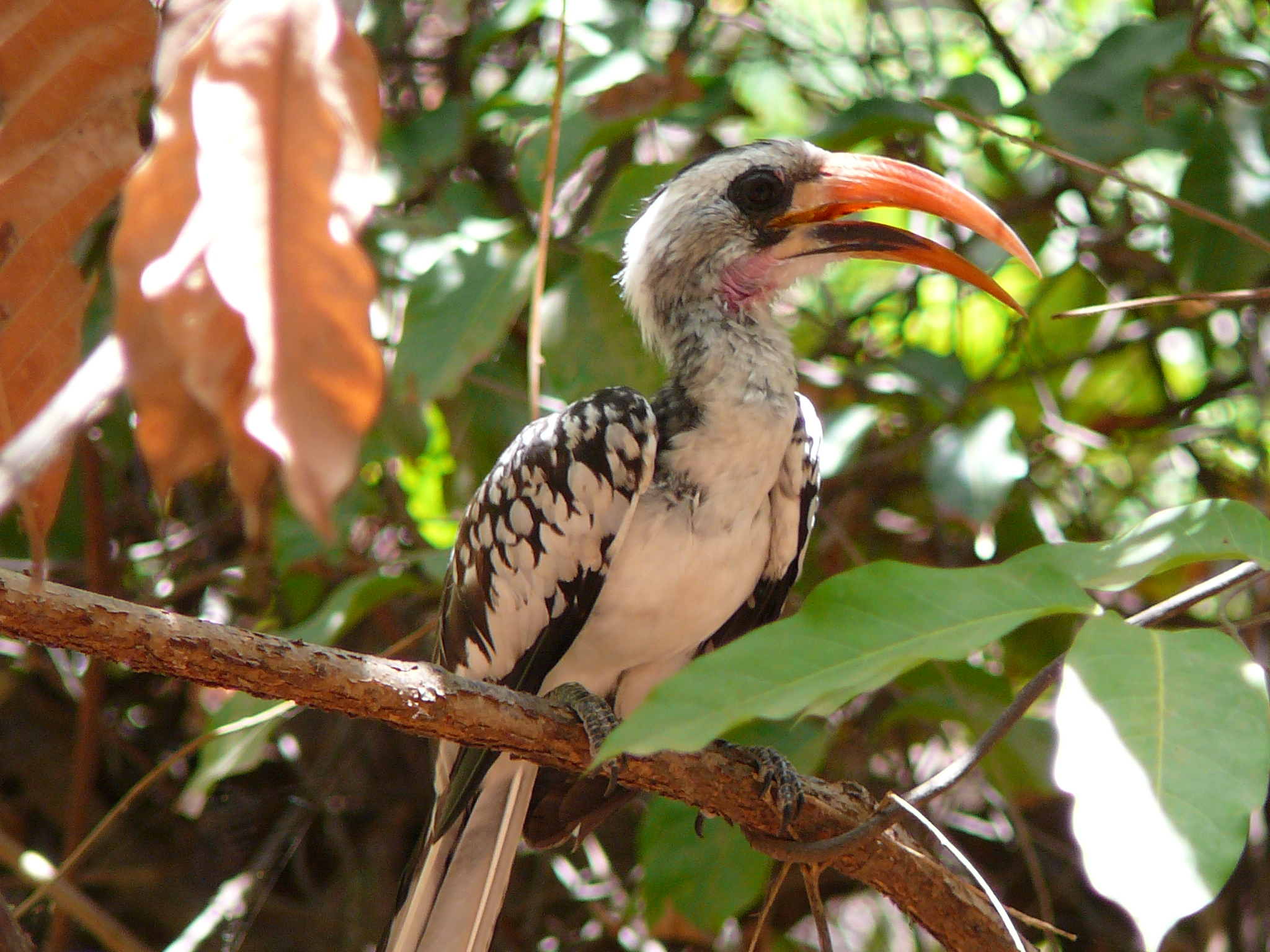 A Western Red-billed Hornbill in Bijilo Forest Park, Gambia